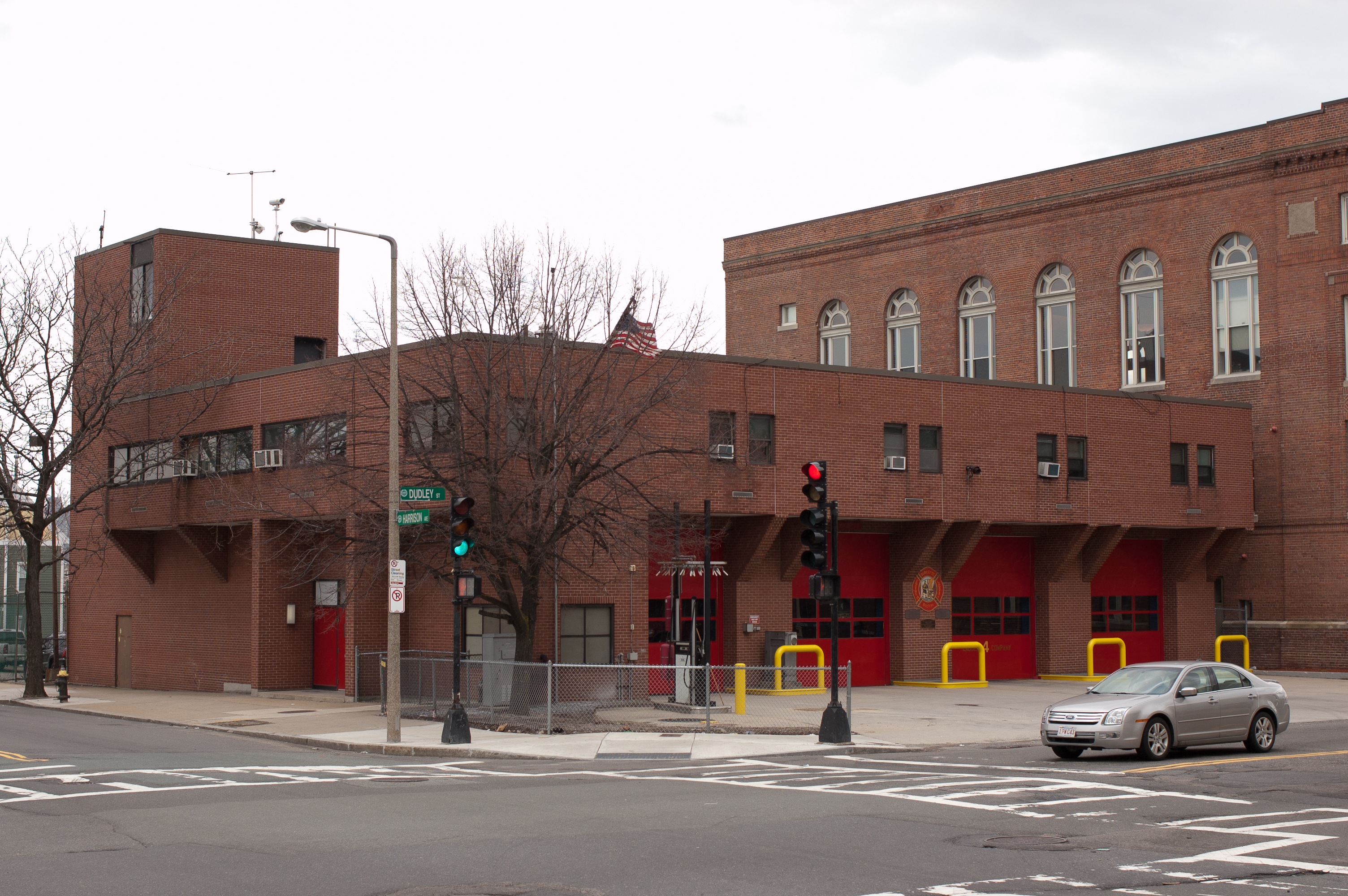 The Boston Fire Department building at 174 Dudley Street, Roxbury, Massachusetts.